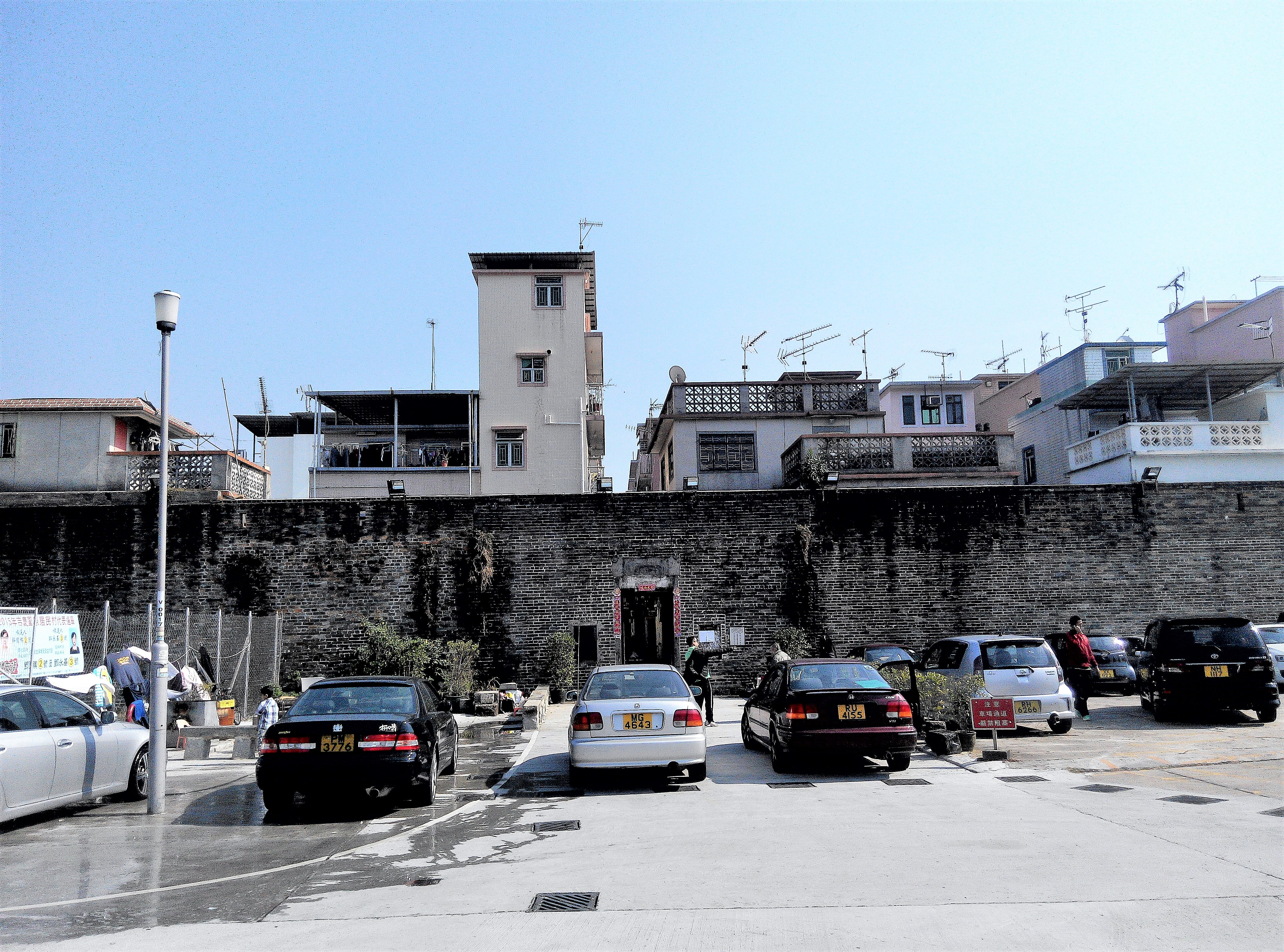 Kam Tin, Kat Hing Wai